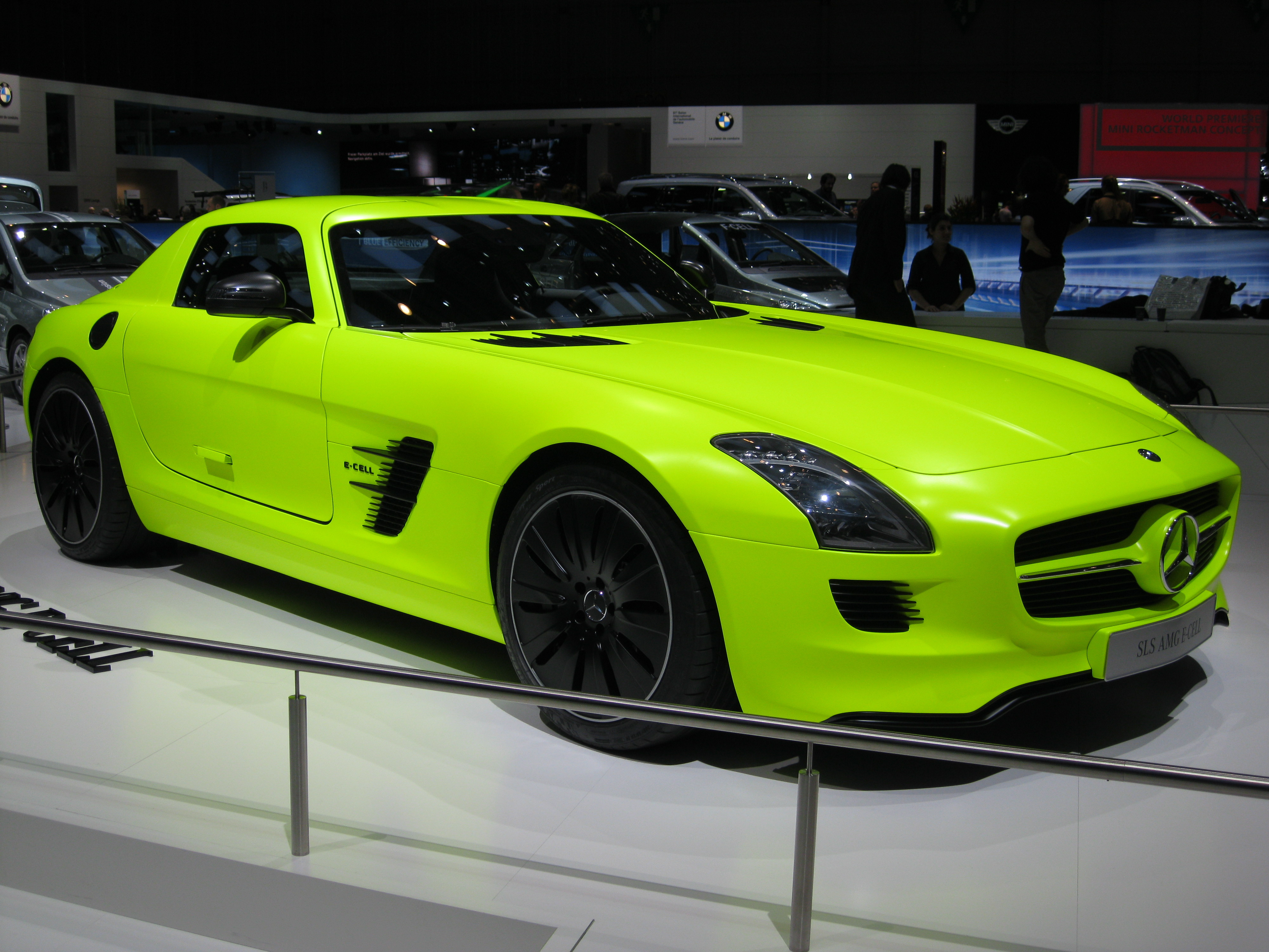 An electric Mercedes-Benz SLS exposed at the Geneva Motor Show in 2011.